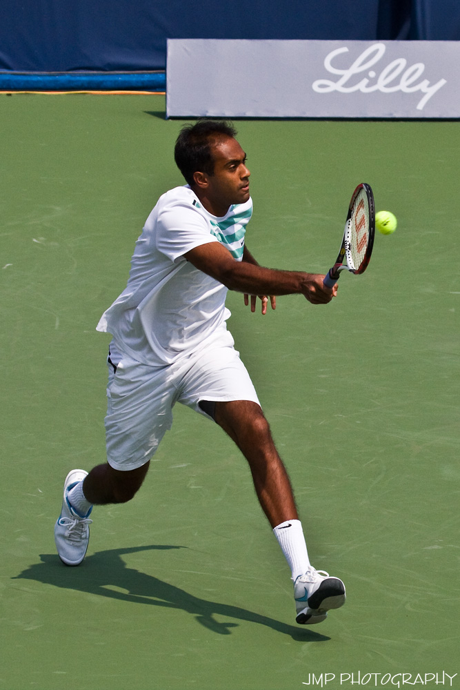 Rajeev Ram against Sam Querrey in the 2009 Indianapolis Tennis Championships second round